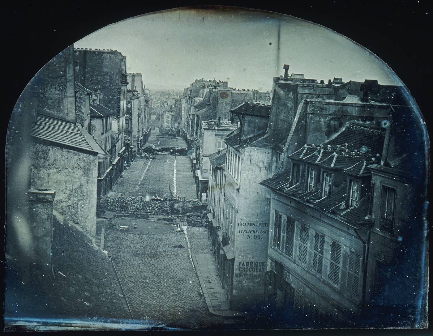 Barricades rue Saint-Maur. Avant l'attaque, 25 juin 1848. Après l’attaque, 26 juin 1848. Technique et autres indications : Daguerréotypes Avant l'attaque : 11,2 x 14,5 Après l'attaque : 12,2 x 14,5 cm Lieu de Conservation : Musée d'Orsay (Paris) ; Référence de l'image : 02CE10881/PHO2002-41 --- 02CE10879/PHO 2002-42